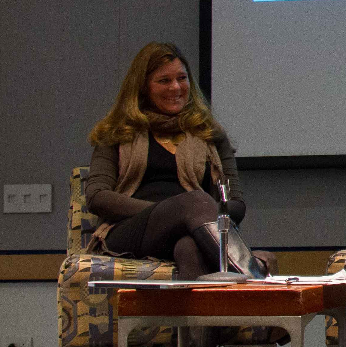 From left to right: Kathi Lynn Austin, Shorna Kay Richards, Susi Snyder and Antonius Wiriadjaja.